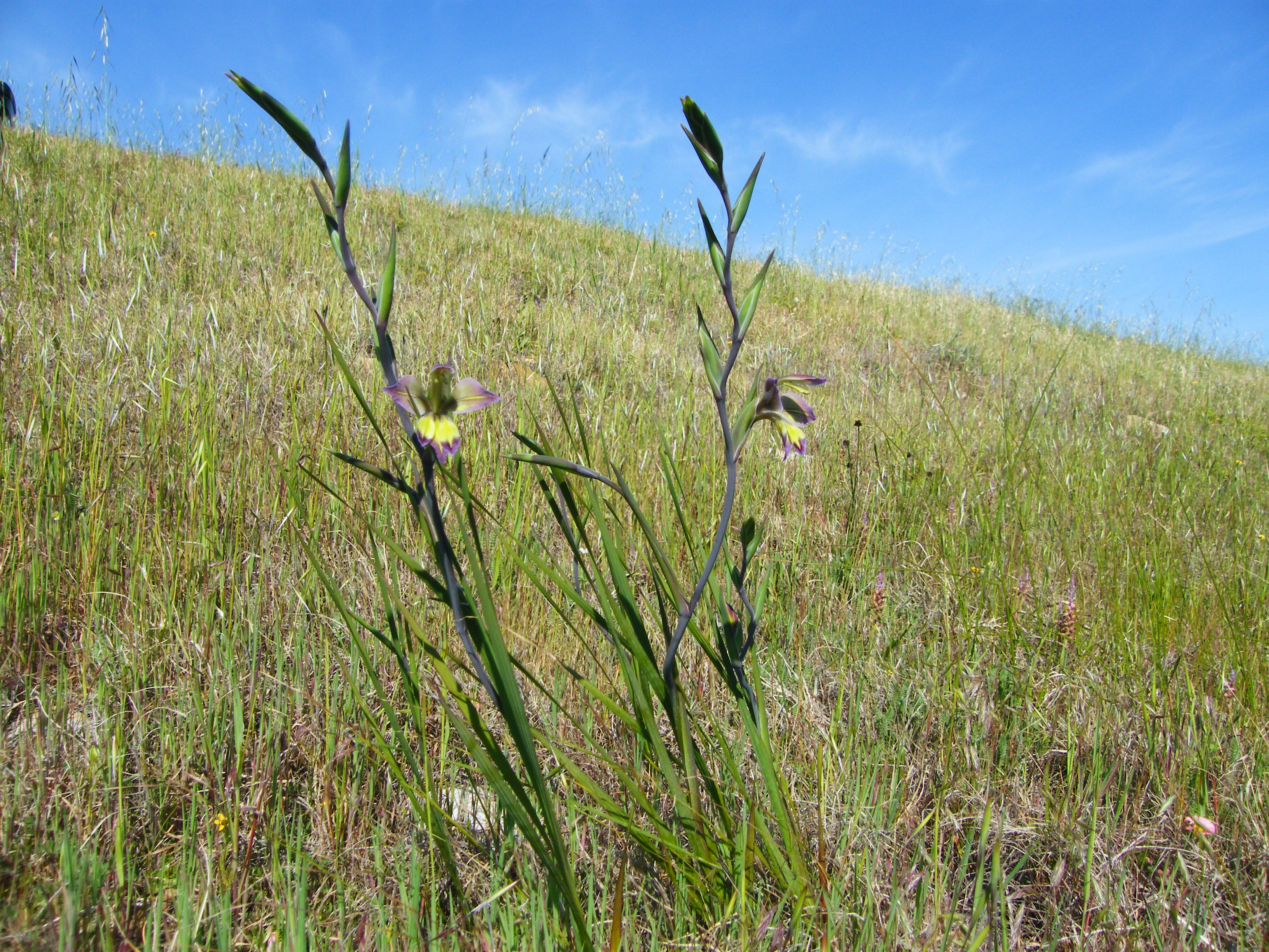 Gladiolus